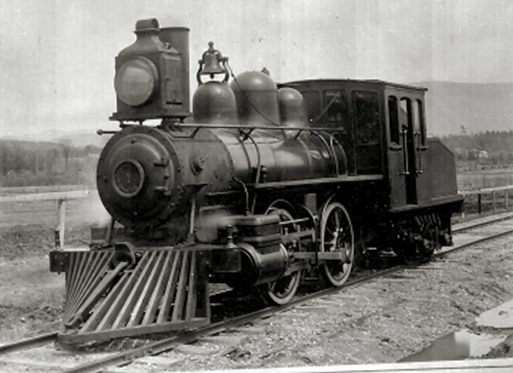 The Bristol Railroad No. 1, an 0-4-4T saddle tanker.